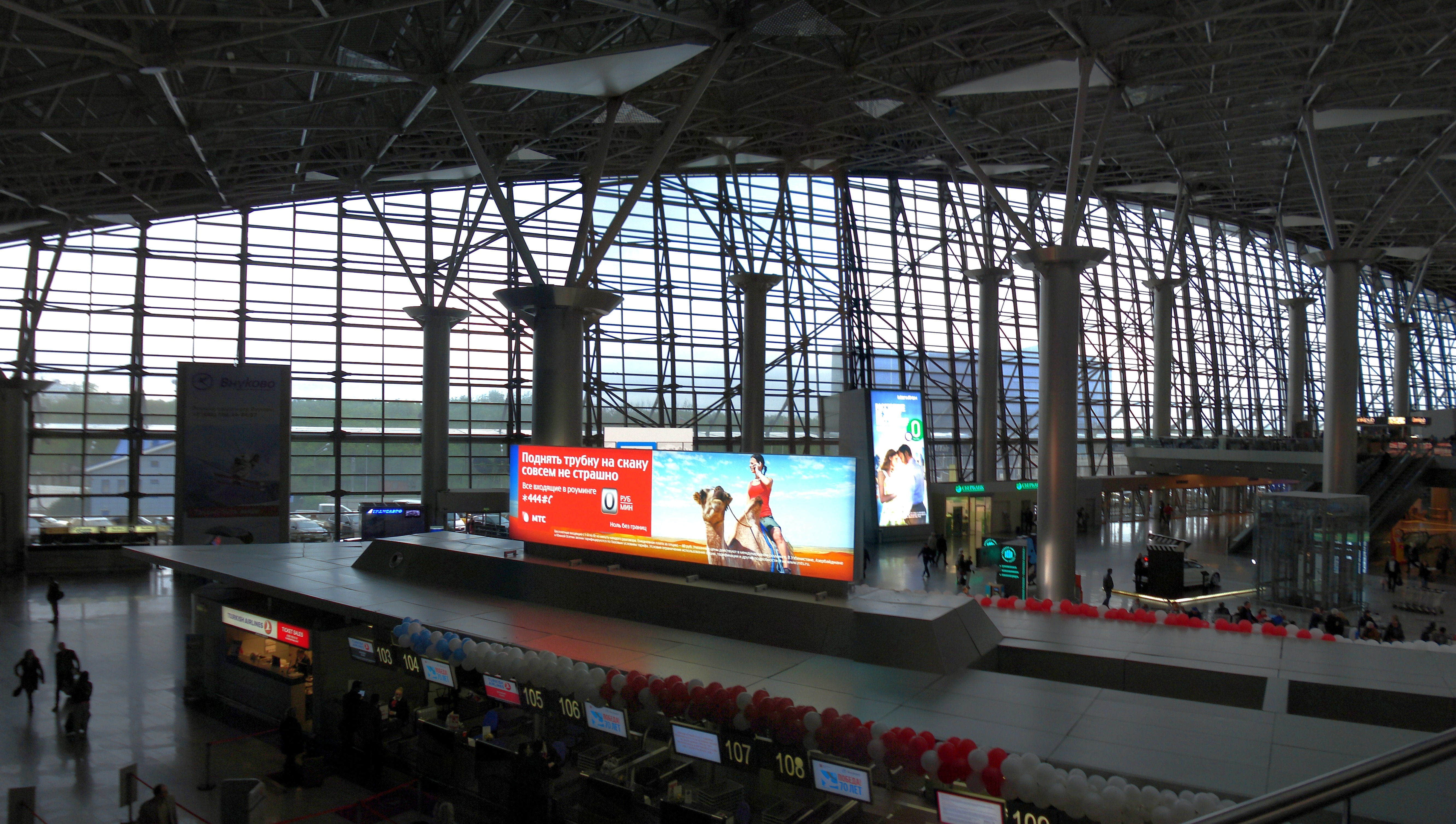 Vnukovo International Airport